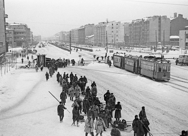 “Moscow Avenue in Leningrad led to the front during the 1941-1945 Great Patriotic War”. A military unit marches to the front along Moscow Avenue in Leningrad. December 1941.